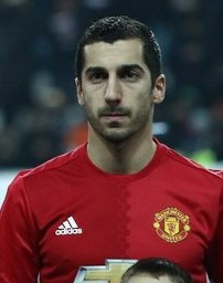 Henrikh Mkhitaryan